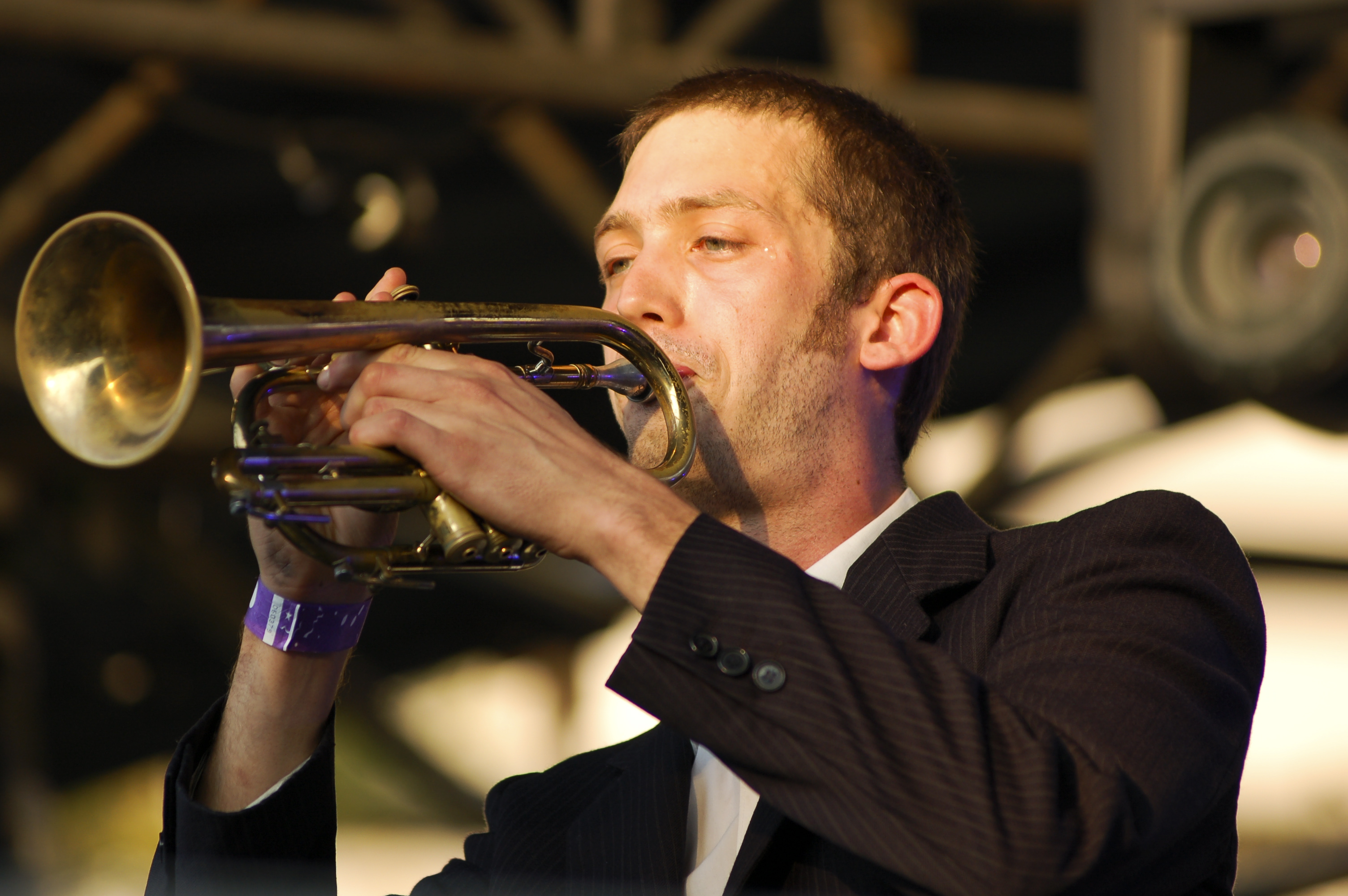 Scott Brackett. This photo is licensed Attribution-Share Alike Creative Commons. Please license the same way and credit Kristin Hillery for That Other Paper if you use it.